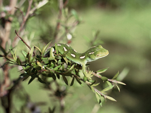 Naultinus elegans elegans by J.L. Kendrick